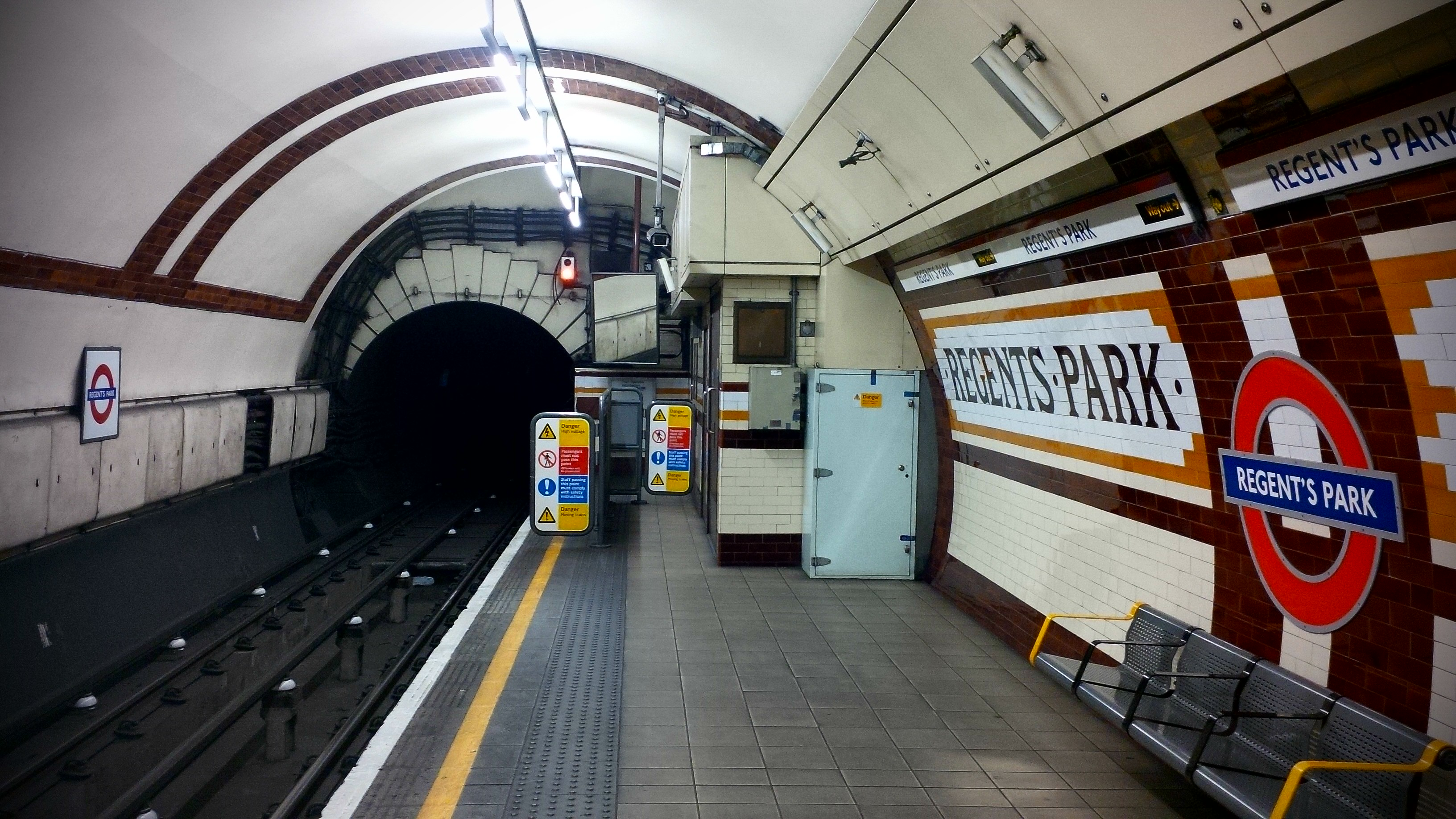 Regent's Park tube station, interior (2013).